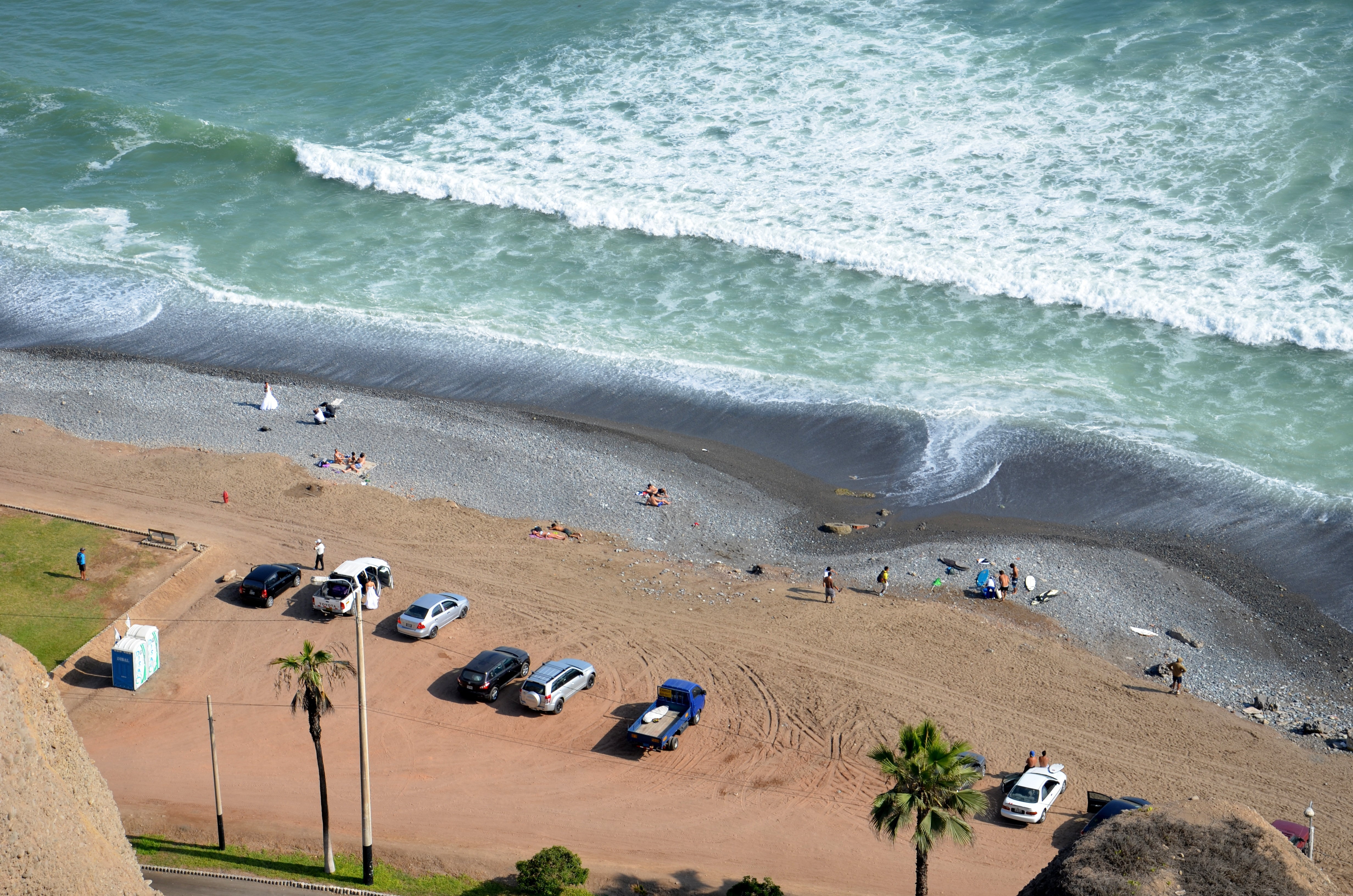 Cars parked on beach in Miraflores, Lima, Peru.